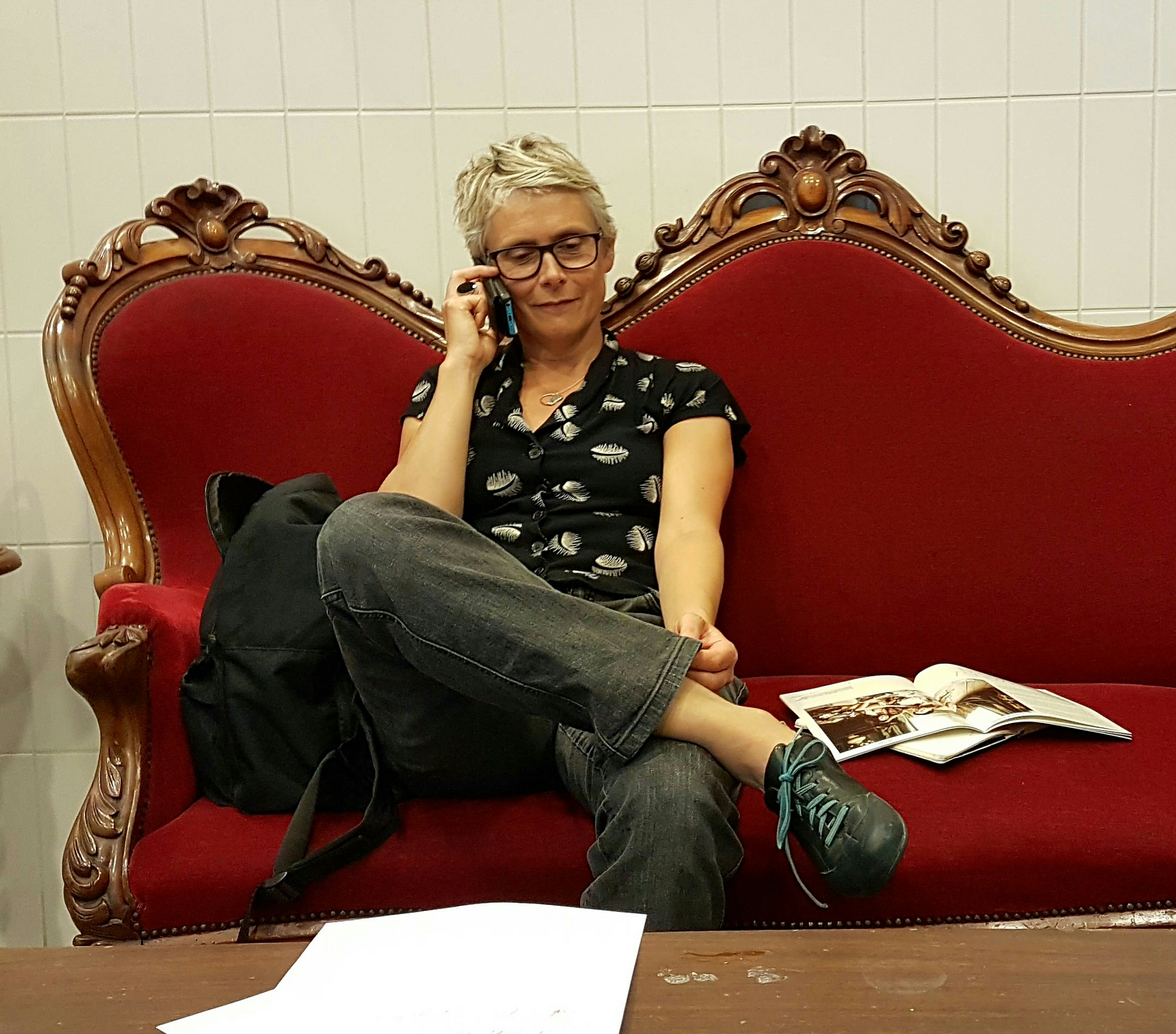 Katie Mitchell, August 2016 in Amsterdam.